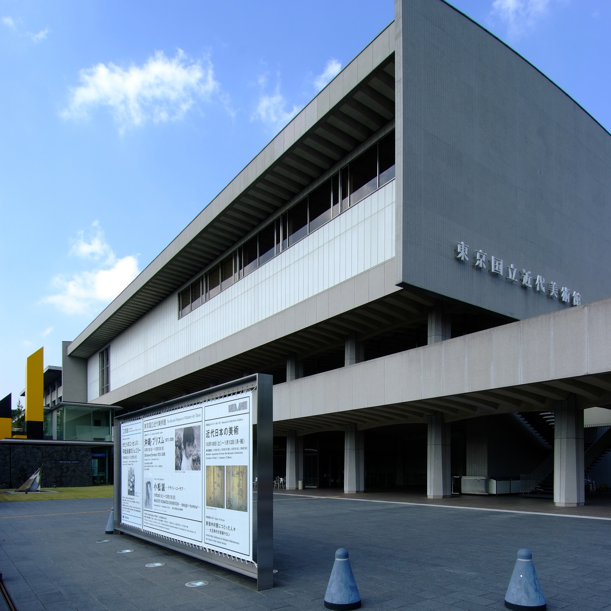 The Tokyo National Museum of Modern Art in Tokyo Japan. Design by Yoshiro Taniguchi in 1969.